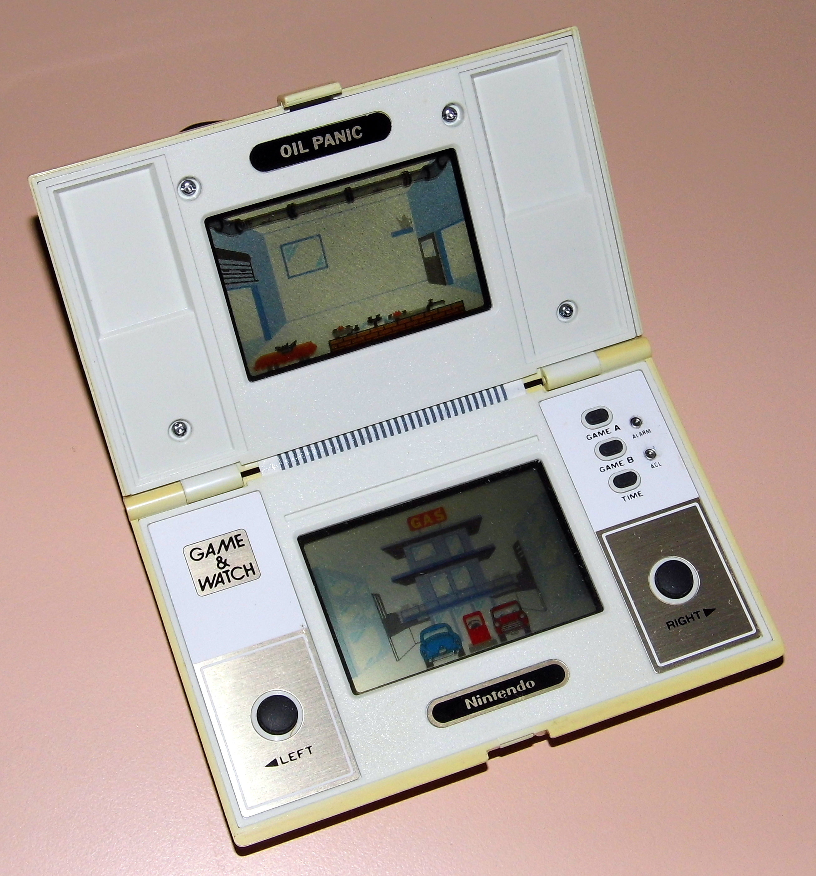 Vintage Nintendo Oil Panic Electronic Handheld Game, Part Of The Game & Watch Series, Model OP-51, Made In Japan, Copyright 1982 from Flickr album "[ Vintage Handheld and Other Electronic Games ]" by Joe Haupt "A good source of information on vintage handheld electronic games is the Electronic Handheld Game Museum ."